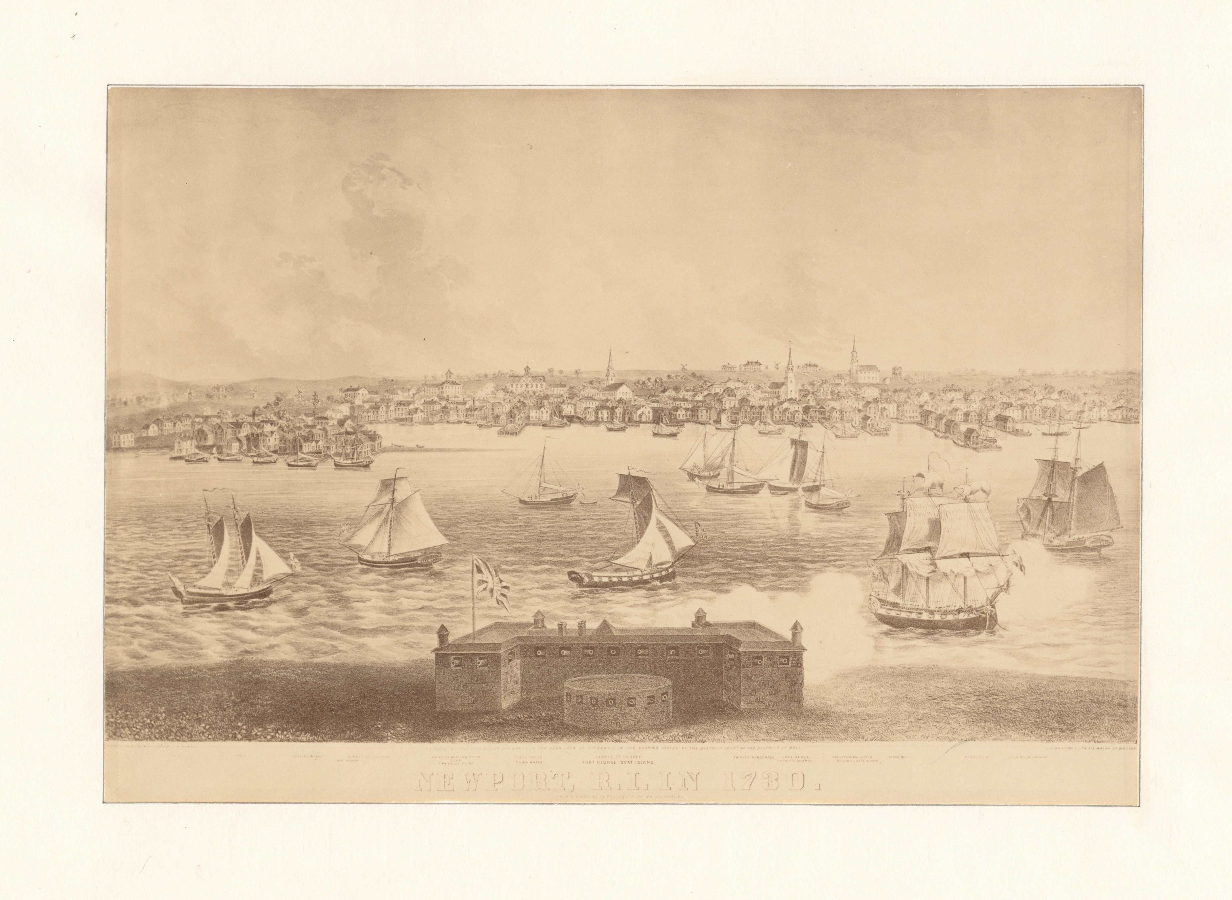 EM2383